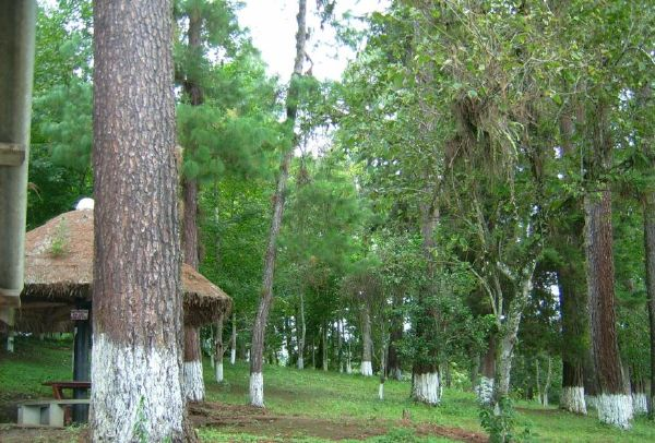 El Petencito